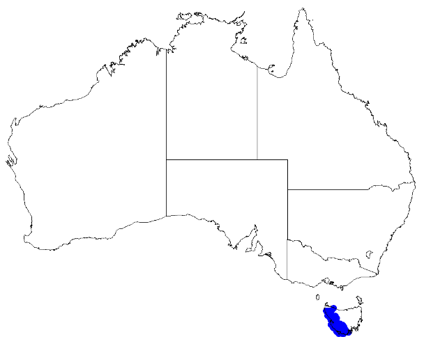 Boronia elisabethiae occurrence data downloaded from Australasian Virtual Herbarium 10 April 2019 using This download included all the environmental overlay fields and ALA's data checking fields including "cultivated / escapee", "outside expert range for species", "latitude is negated", "coordinates are transposed", "taxon misidentified", "habitat incorrect for species", and "suspected outlier" (over 600 fields). Deleting occurrences for which any of the above were true, 46 specimens with coordinates were deleted. However this did not remove all obvious spatial outliers some of which were later removed by hand..